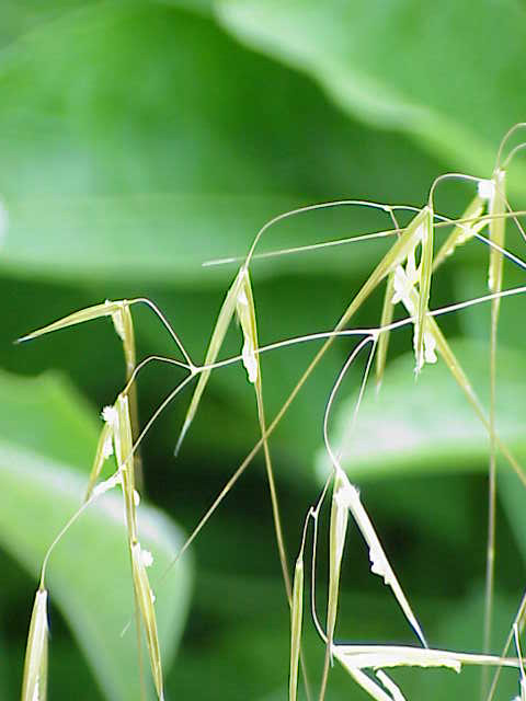 Species: Stipa gigantea Family: Poaceae Image No. 2